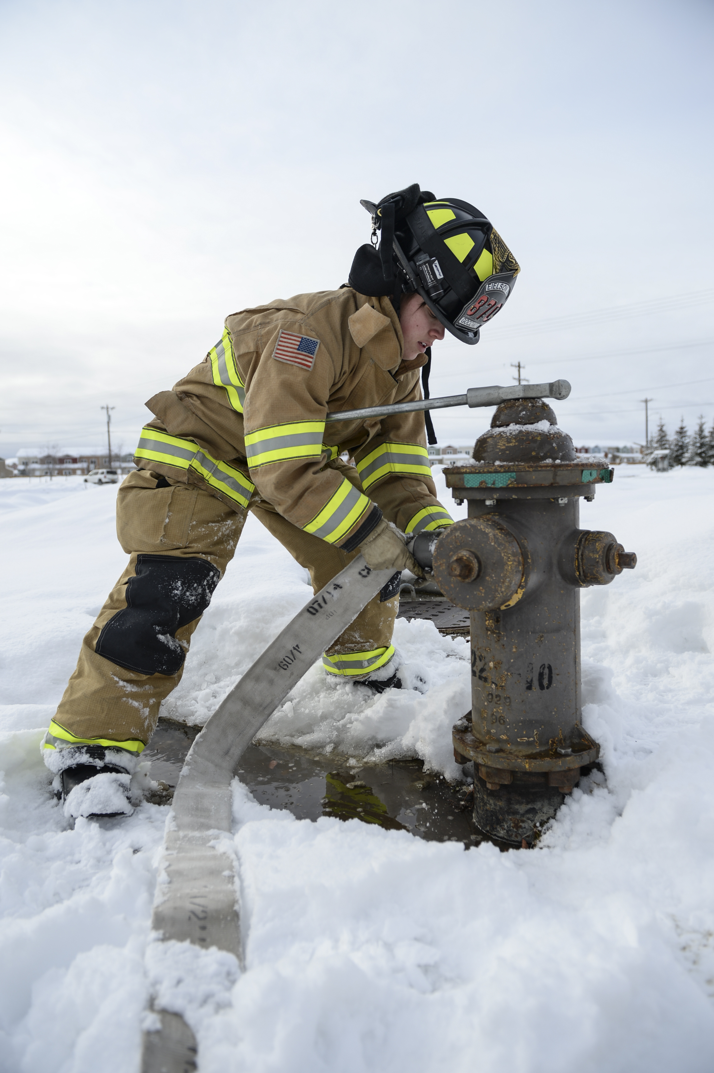 U.S. Air Force Kaylee Goodwin, a 354th Civil Engineer Squadron firefighter, charges a hydrant March 6, 2015, Eielson Air Force Base, Alaska. Goodwin refilled the internal water tank of a P24 fire truck after a nozzle test. (U.S. Air Force photo by Senior Airman Peter Reft/Released)